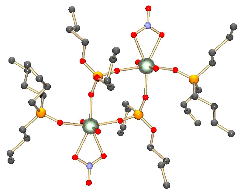 The complex of uranium(VI) with tributyl phosphate and dibutyl phosphate. Note that "do bad" is a nickname used in some parts of the nuclear community for a degradation product of TBP. These substances do bad things to the solvent extraction processes so they are "dobadz"